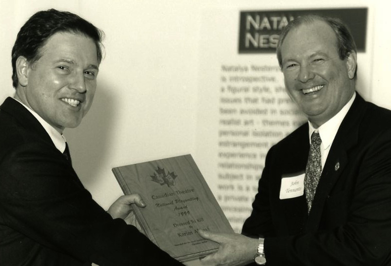 Karim Alrawi receives Canadian Theatre Award from John Tennant Canadian Consul in the US. Photograph taken at Meadow Brook Theatre, MI, USA, 1999.